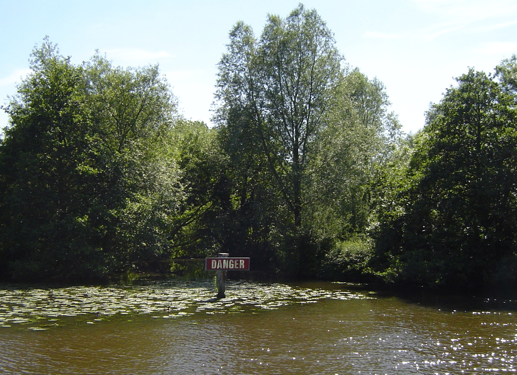 Swift Ditch River Thames